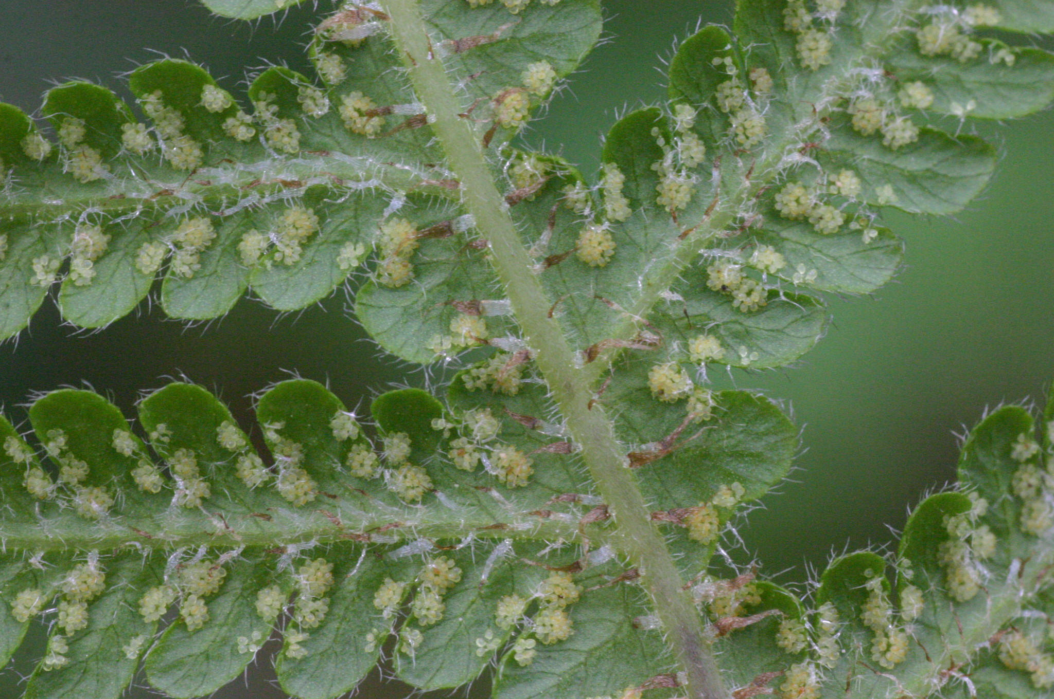 Phegopteris connectilis